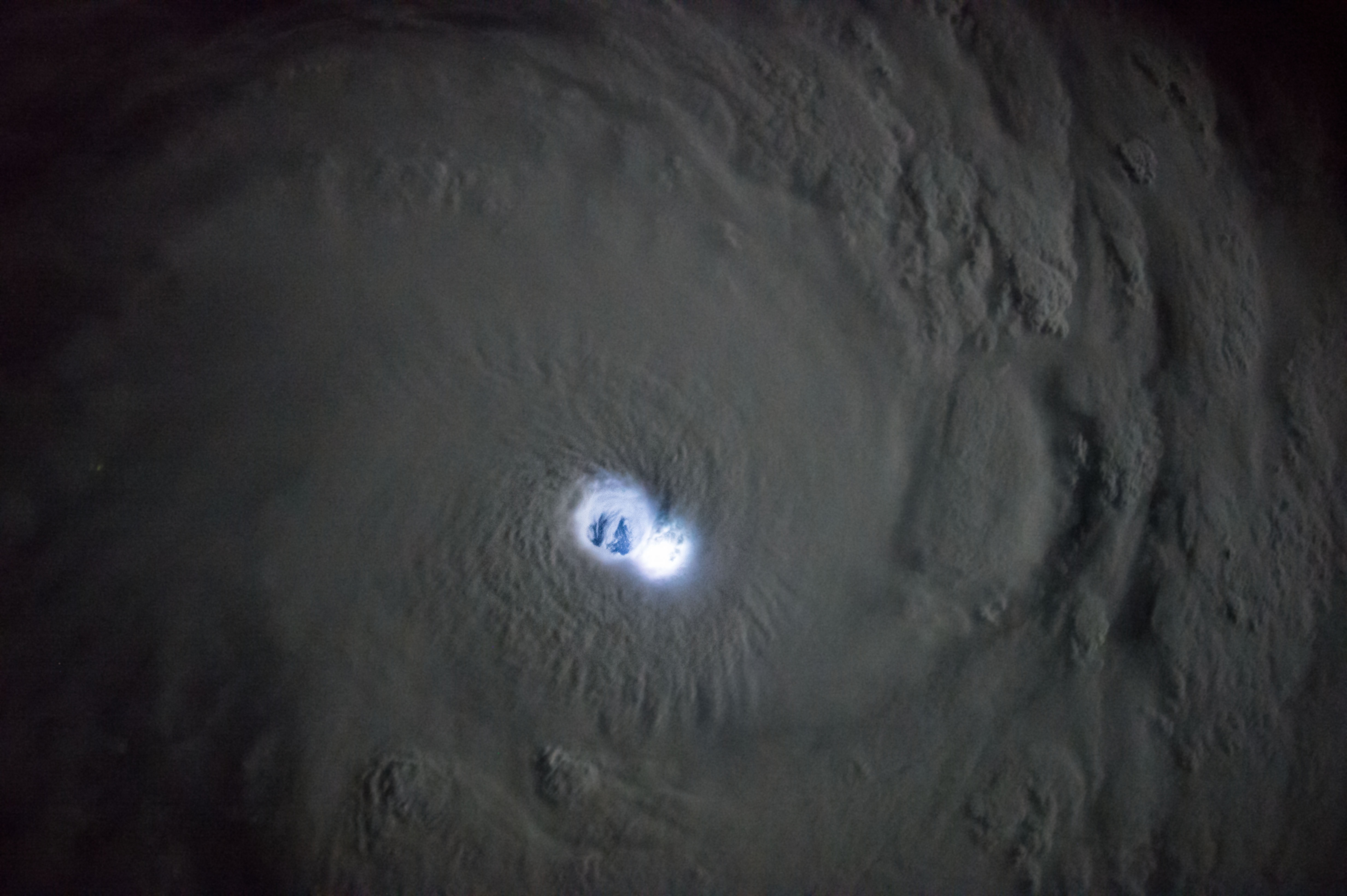 Though the image may look like it comes from a science fiction movie, it is in fact a photograph of Very Intense Tropical Cyclone Bansi as seen at night by astronauts on the International Space Station (ISS). The image was taken when the ISS was east of Madagascar. The dim swirl of the cloud bands covers the ocean surface in the night image. The eye of the cyclone is brilliantly lit by lightning in or near the eye wall. The low-light settings of the camera used to take the image accentuate the contrast.